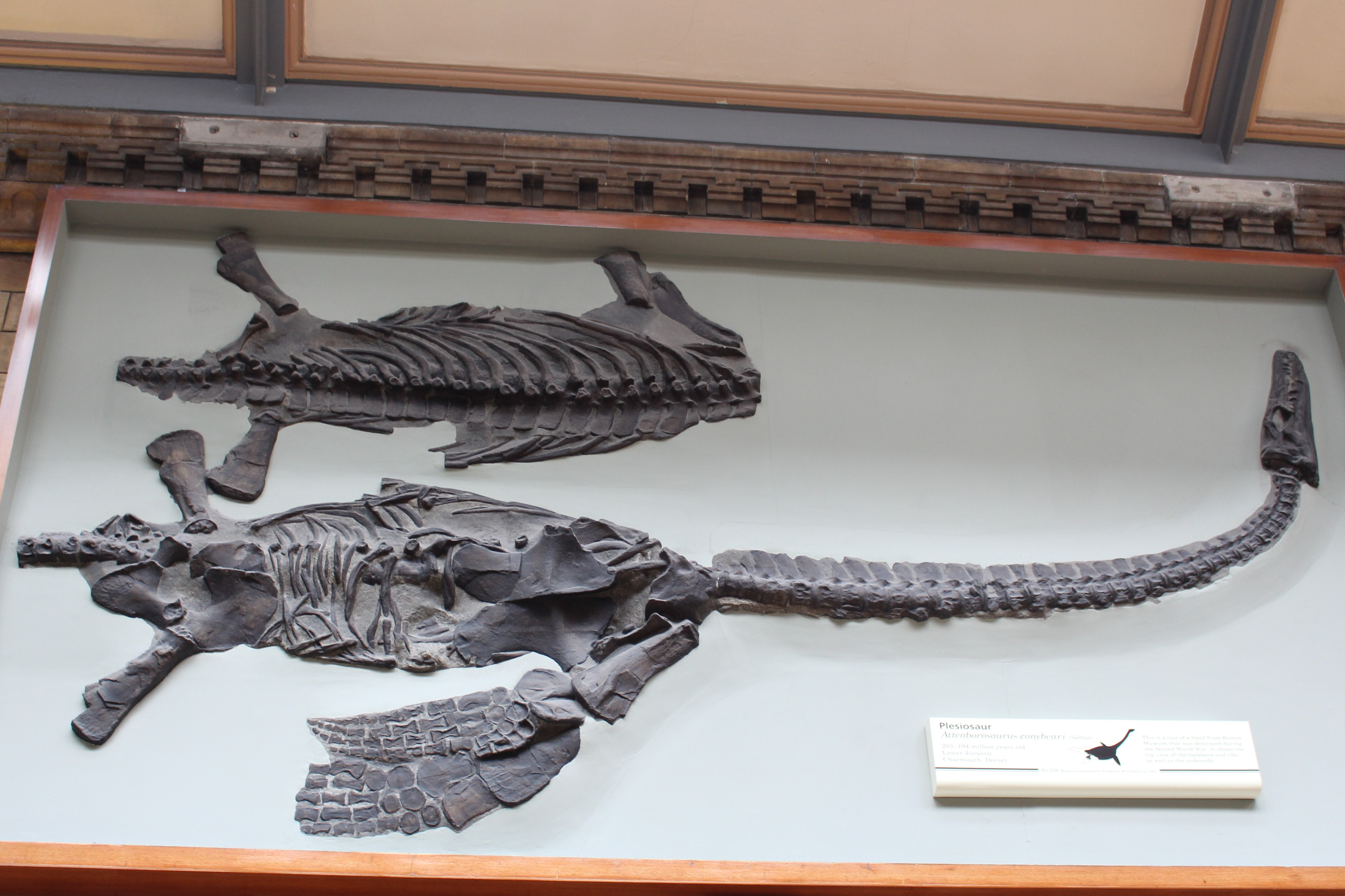 Attenborosaurus conybeari skeletons at the Natural History Museum in London, England.